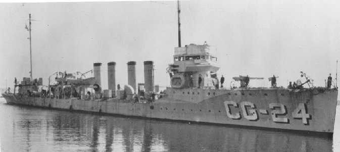 A U.S. Coast Guard cutter USCGC Wainwright (CG-24).